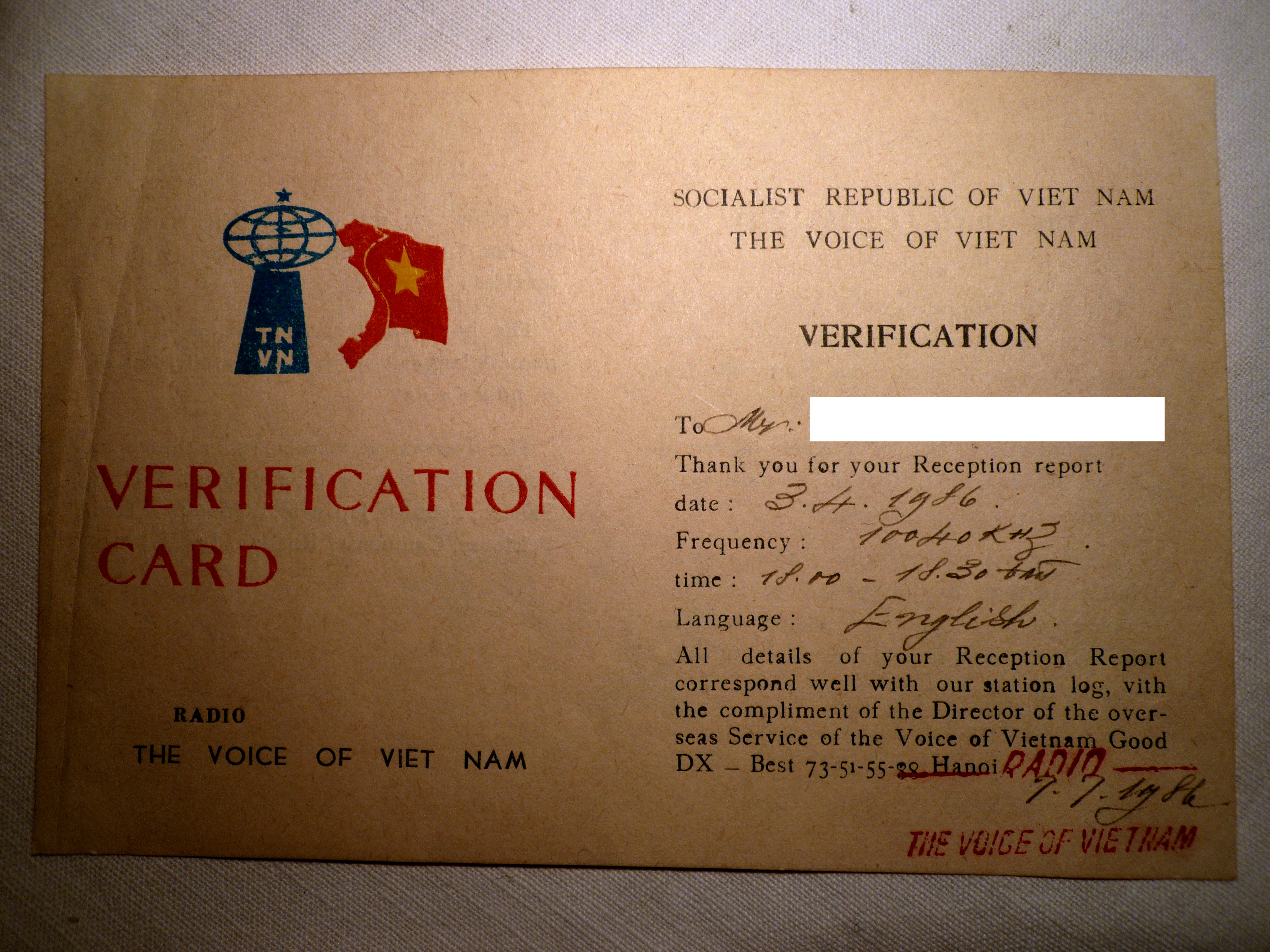 QSL card of a Vietnamese shortwave radio station from the 1980'ies